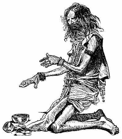 A Fakir . It can also be used pejoratively, to refer to a common street beggar who chants holy names, scriptures or verses. These broader idiomatic usages developed primarily in Mughal era India, where the term was injected into local idiom through the Persian-speaking courts of Muslim rulers. It has become a common Urdu and Hindi word for â€œbeggarâ€